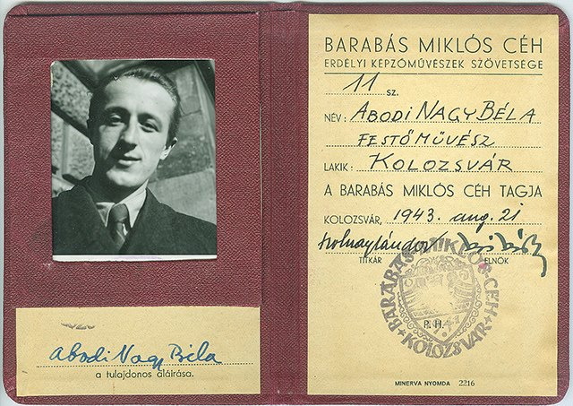 Membership card of Fine Arts Association, Miklos Barabas Guild in Transylvania 1943, Owner Abodi Nagy Béla (Béla Nagy Abodi), painter (No. 11. member book.